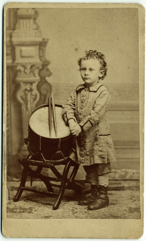 Accession Number: 1978:1059:0059 Maker: Horton & Spink Title: Portrait of Hine as small child standing by drum Date: ca. 1876 Medium: albumen print carte-de-visite Dimensions: 9.4 x 5.9 cm. George Eastman House Collection General information about the George Eastman House Photography Collection is available at For information on obtaining reproductions go to